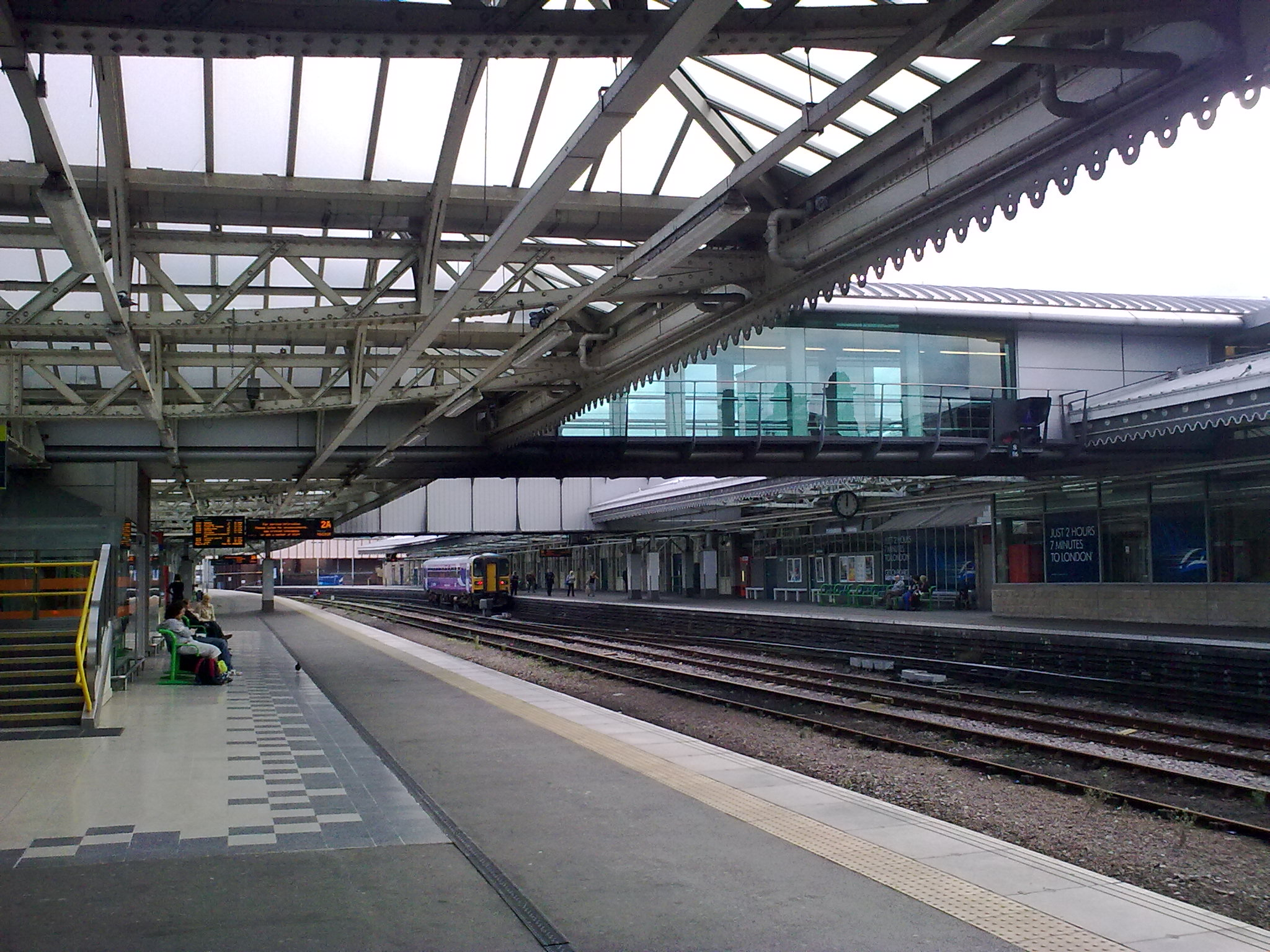 Platform 2A at Sheffield Train Station. Also visible is the new bridge connecting the platforms with the main building and concourse.